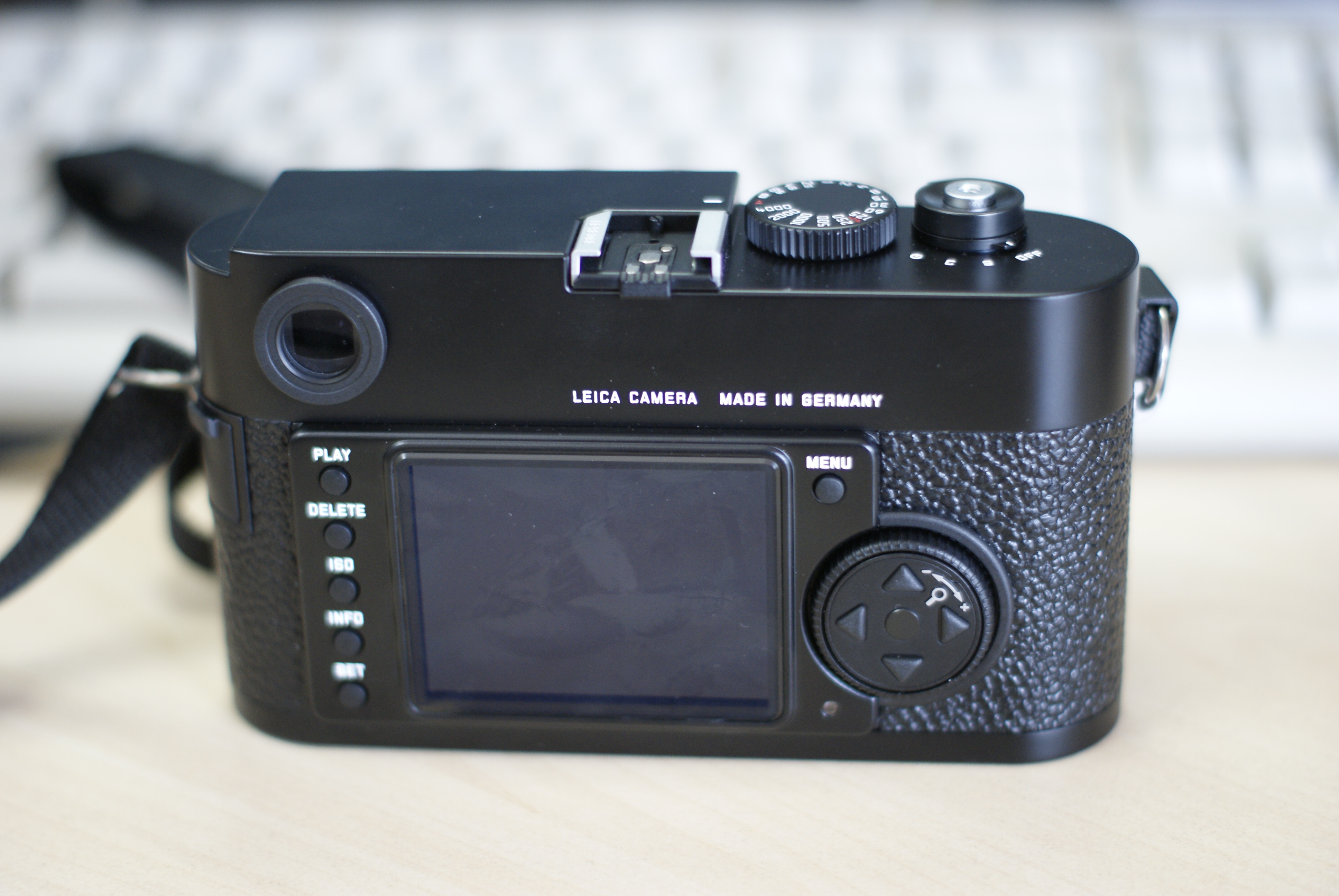 Back view of Leica M9 digital rangefinder camera